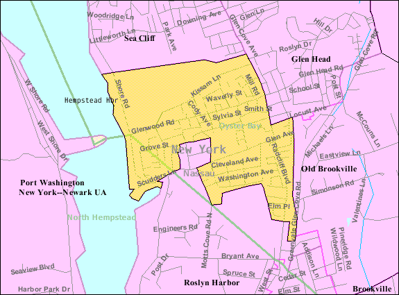 U.S. Census 2000 reference map for Glenwood Landing, New York